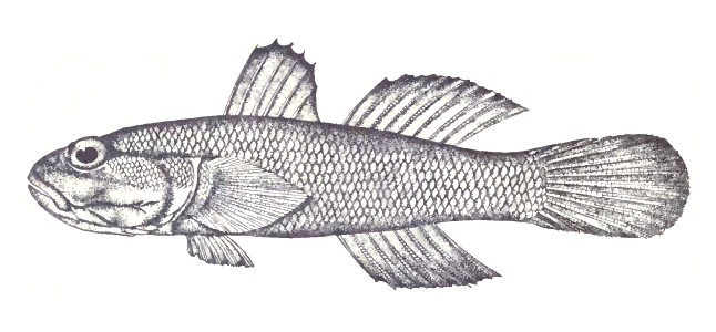 Cheekscaled frill-goby, Bathygobius cotticeps (Steindachner, 1879)